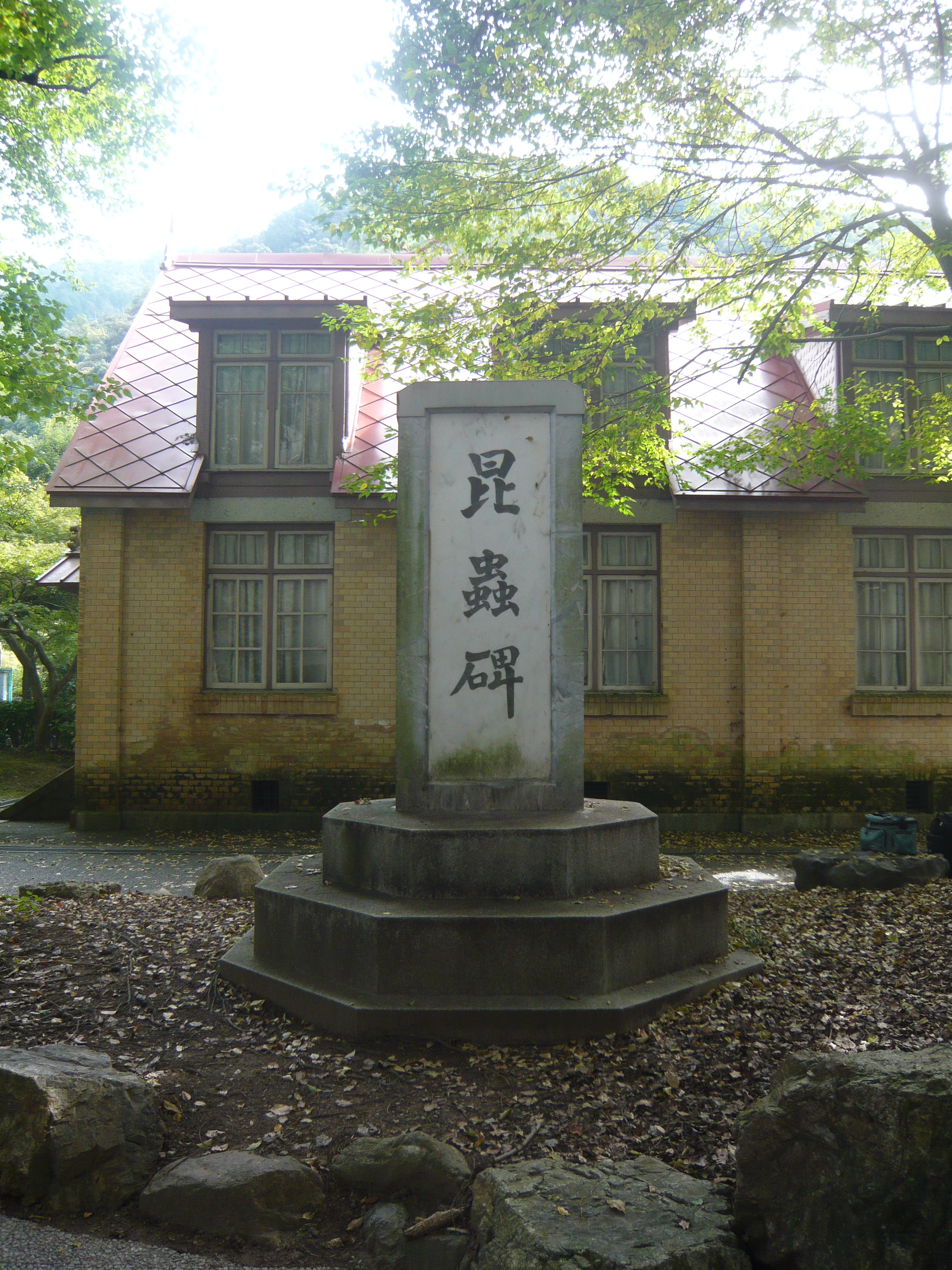 Nawa Insect Museum Insect Monument昆蟲碑（名和昆虫博物館）,Gifu,Gifu,Japan（岐阜県岐阜市）で撮影。